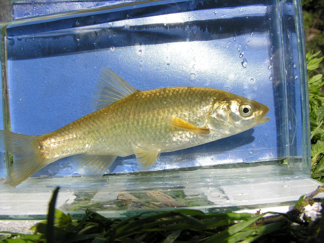 Squalius lucumonis photographed in Tuscany, Italy. Photo by Nicola Fortini. Released after photo.